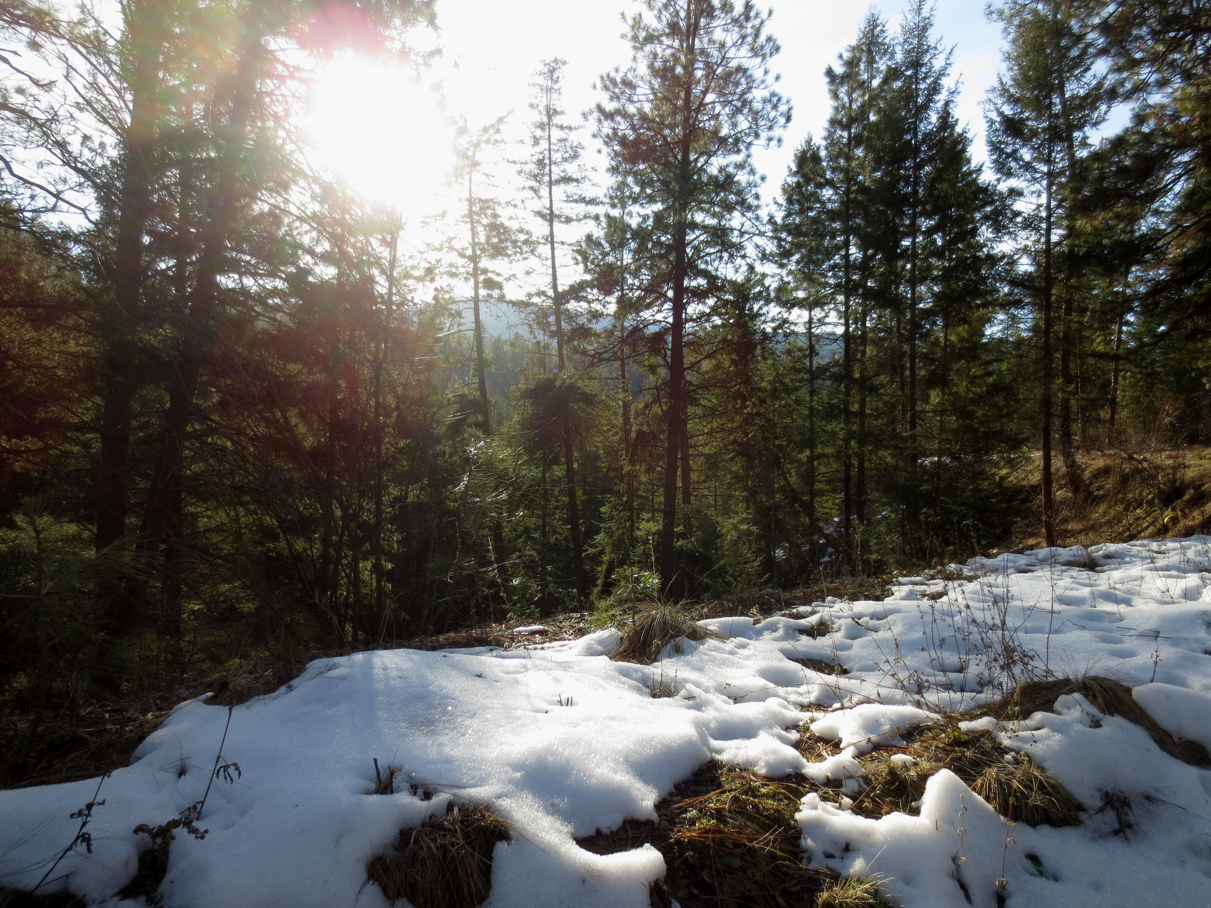 Sunny Winter Morning near the Mission Creek Greenway 15km Marker